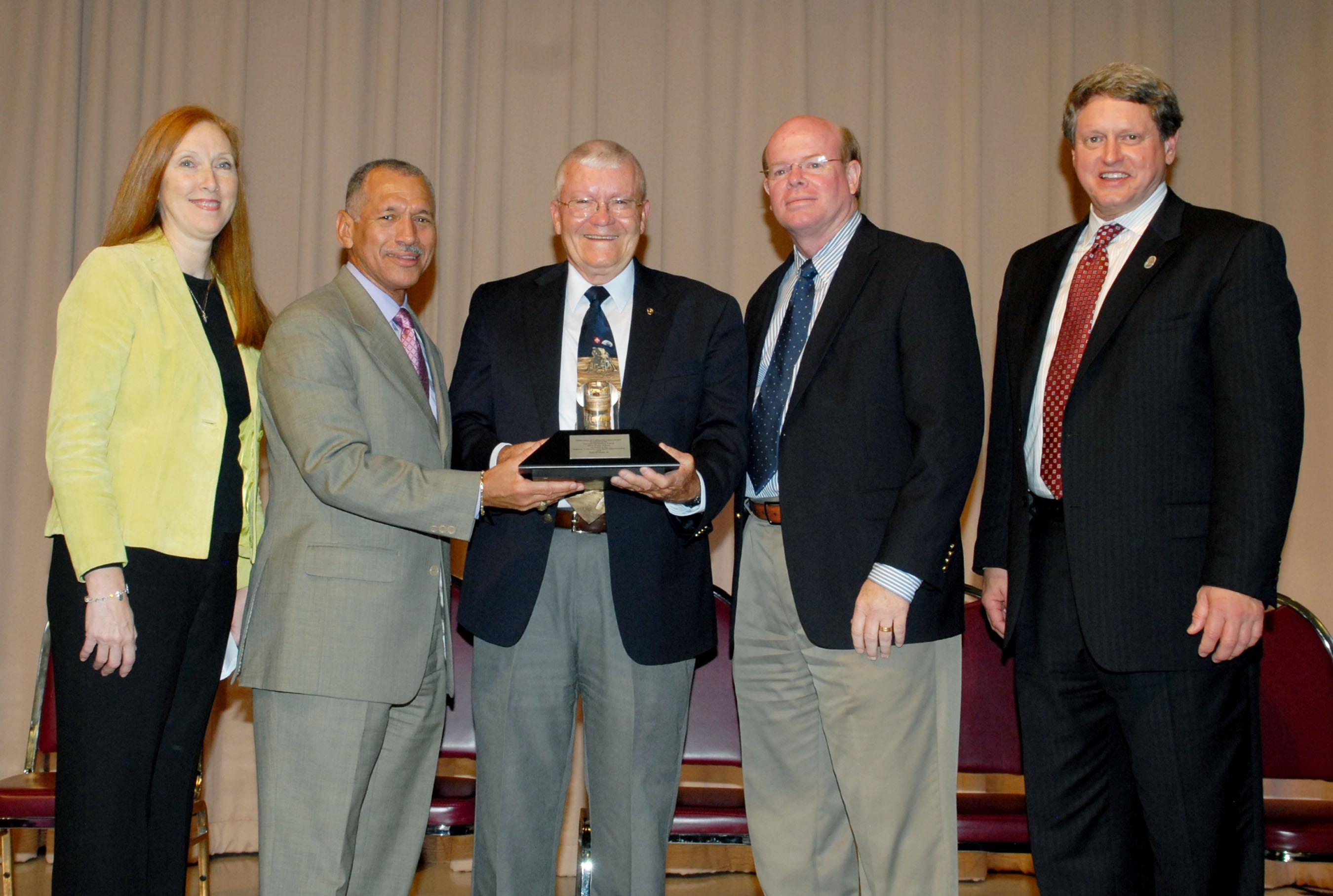 Administrator Charles Bolden presented NASA's Ambassador of Exploration Award to Apollo 13 astronaut Fred Haise, a Biloxi, Miss., native. The ceremony took place at Biloxi's Gorenflo Elementary School. Pictured from left to right are school principal Tina Thompson, Administrator Bolden, Fred Haise, Biloxi Public School District Superintendent Paul Tisdale and Stennis Space Centre Director Gene Goldman.